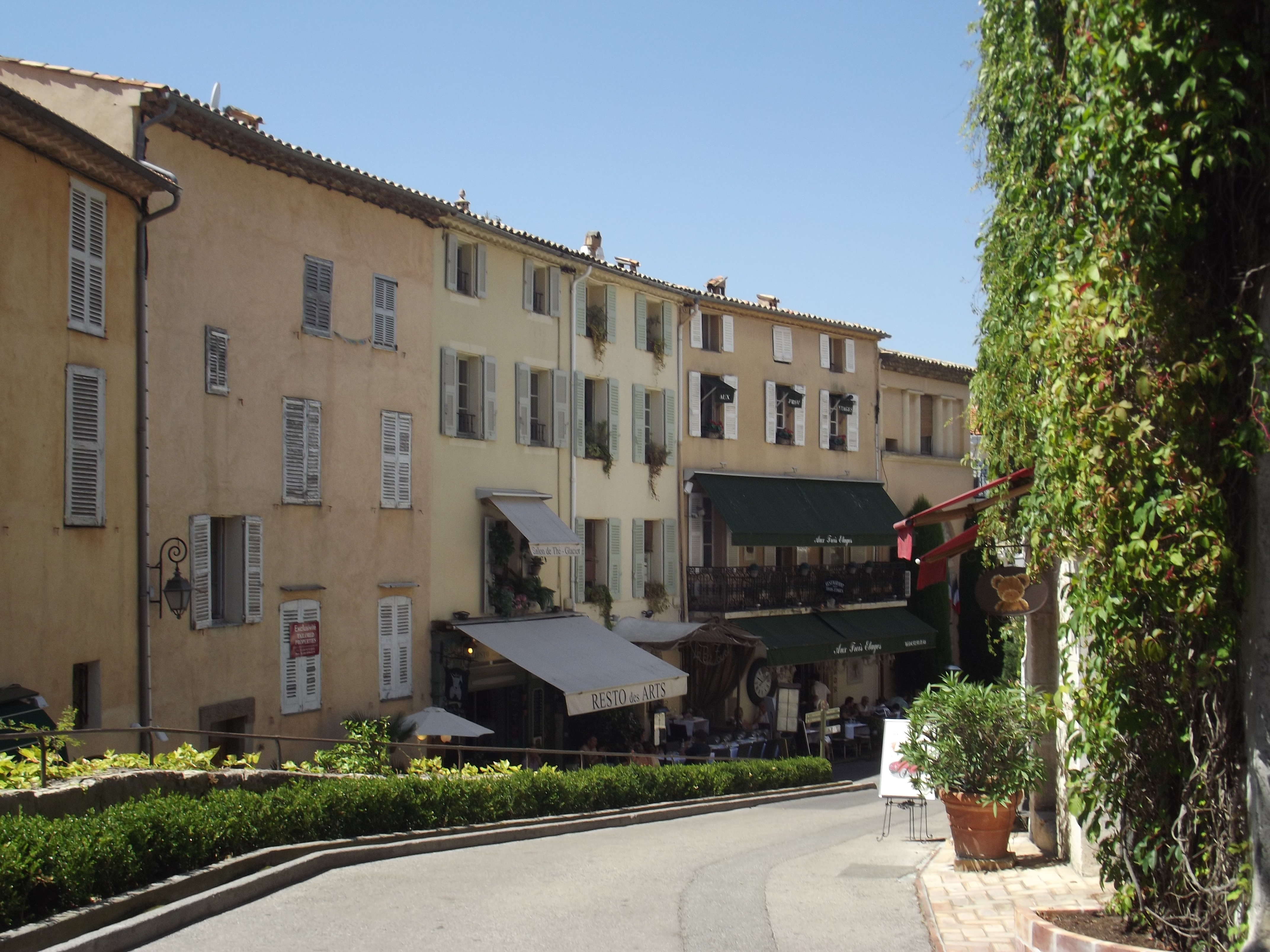 Rue du Maréchal Foch dans le vieux-village de Mougins (Alpes-Maritimes)